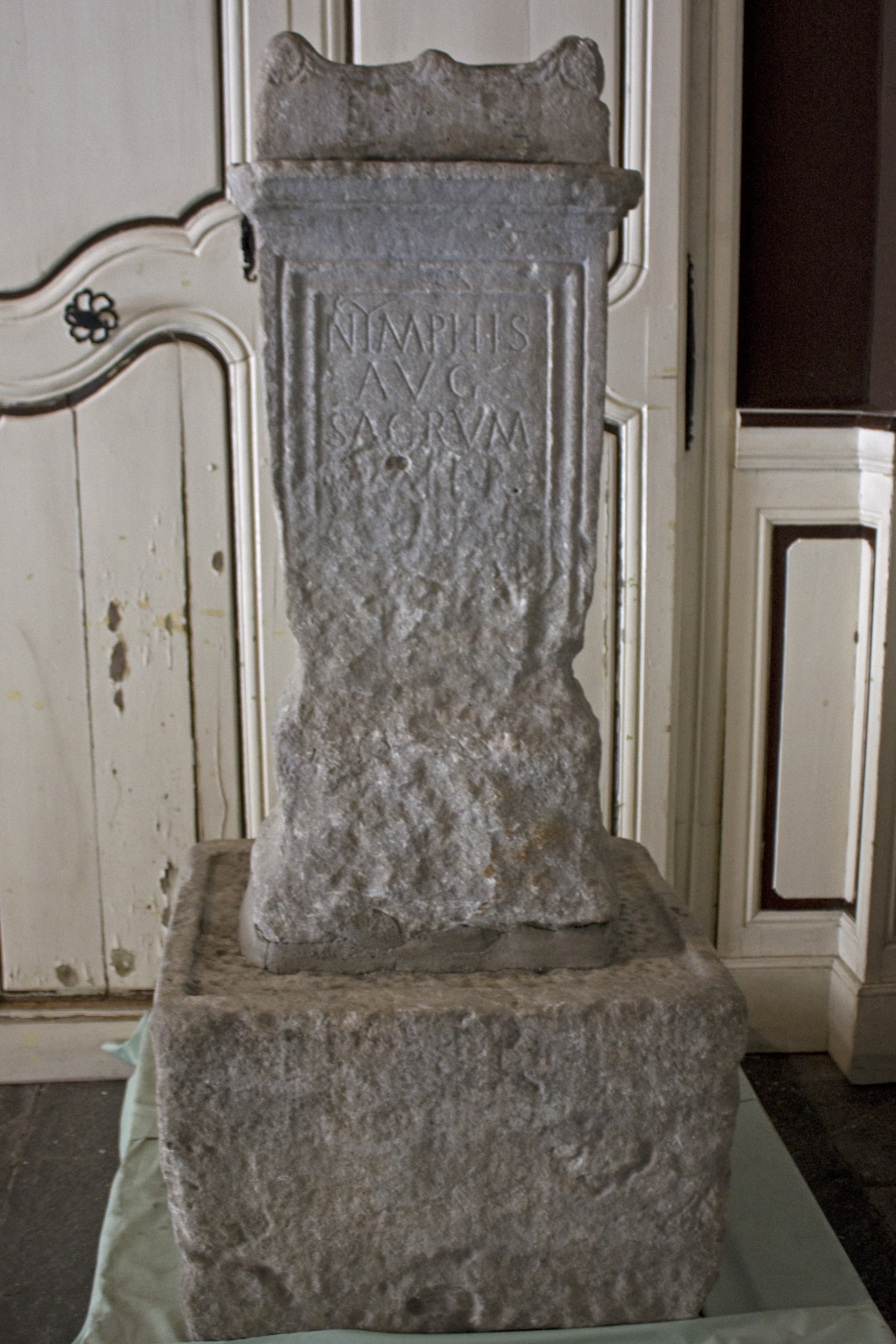 Votive altar, dedicated to the Nymphs. Discovered by Intendant Antoine Megret of Etigny in 1763 on the site of the baths. Nymphs Augusti, A ... V (otum) S (olvit) L (ibens) M (erito) = Augustus to the Nymphs; A ..., with due recognition of a vow.